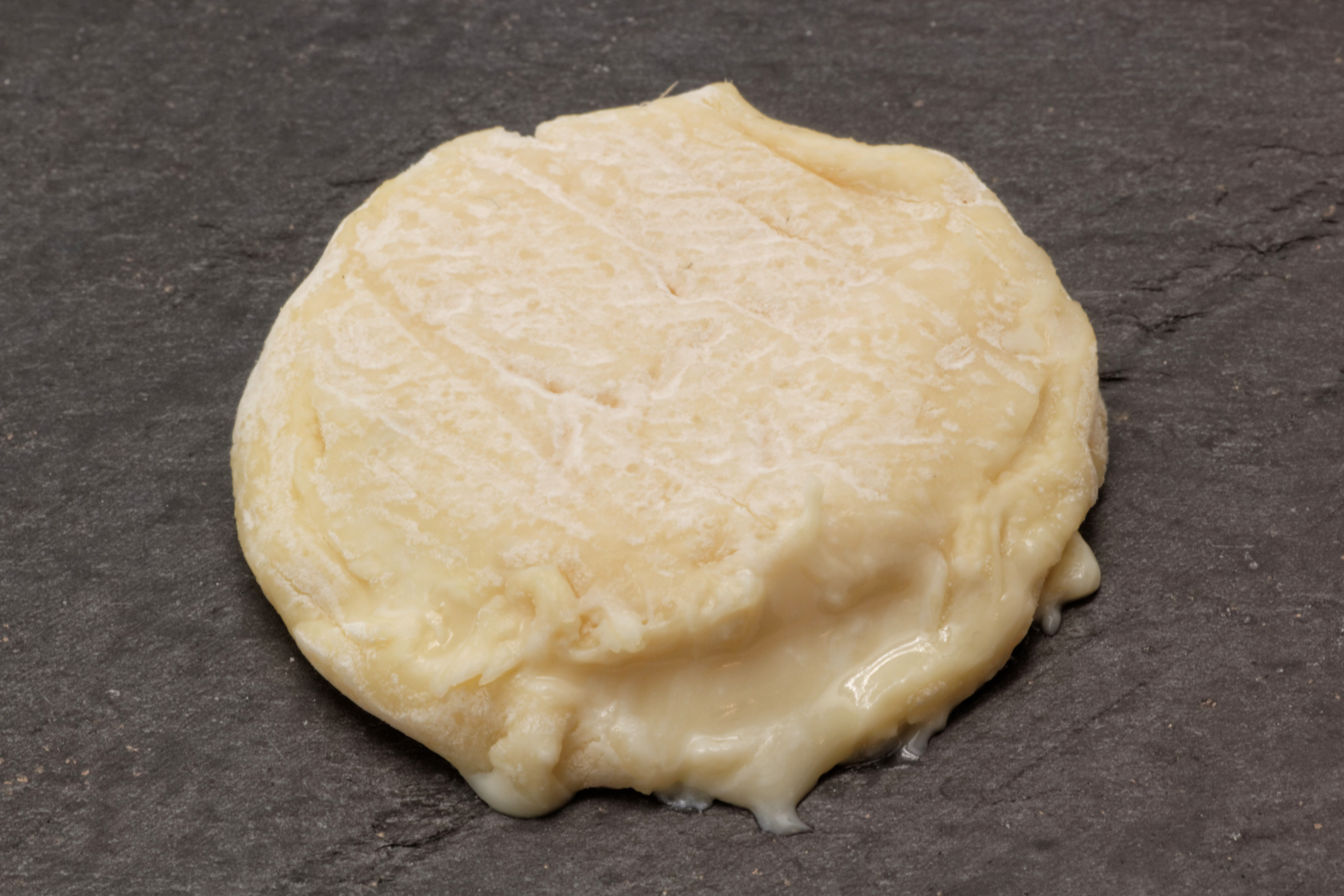 Rocamadour